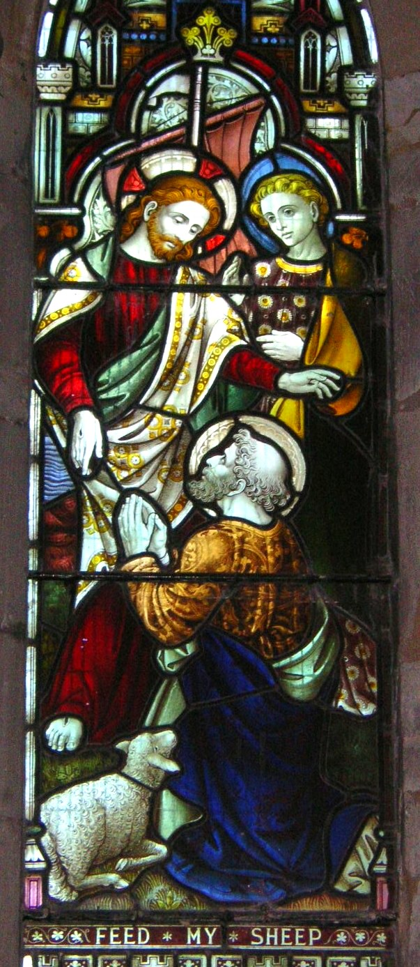 English stained glass